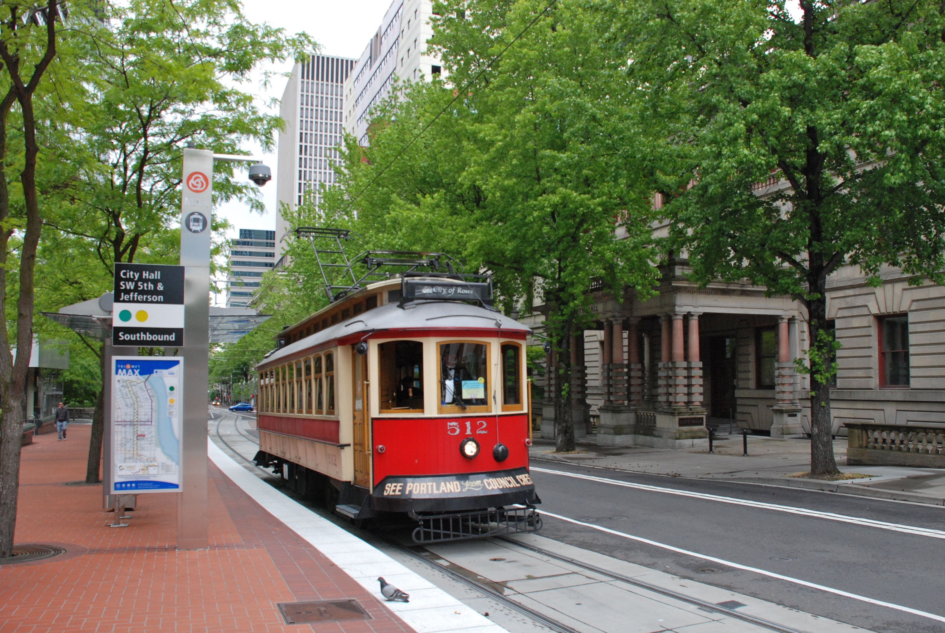 Portland Vintage Trolley car 512, a replica of a 1904 Brill streetcar, built in 1992 by Gomaco. It is passing Portland City Hall, on the MAX light rail tracks on 5th Avenue at Jefferson Street, which is also on the Portland Transit Mall.